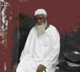 Rajú Madur en Rajastán, 2009.